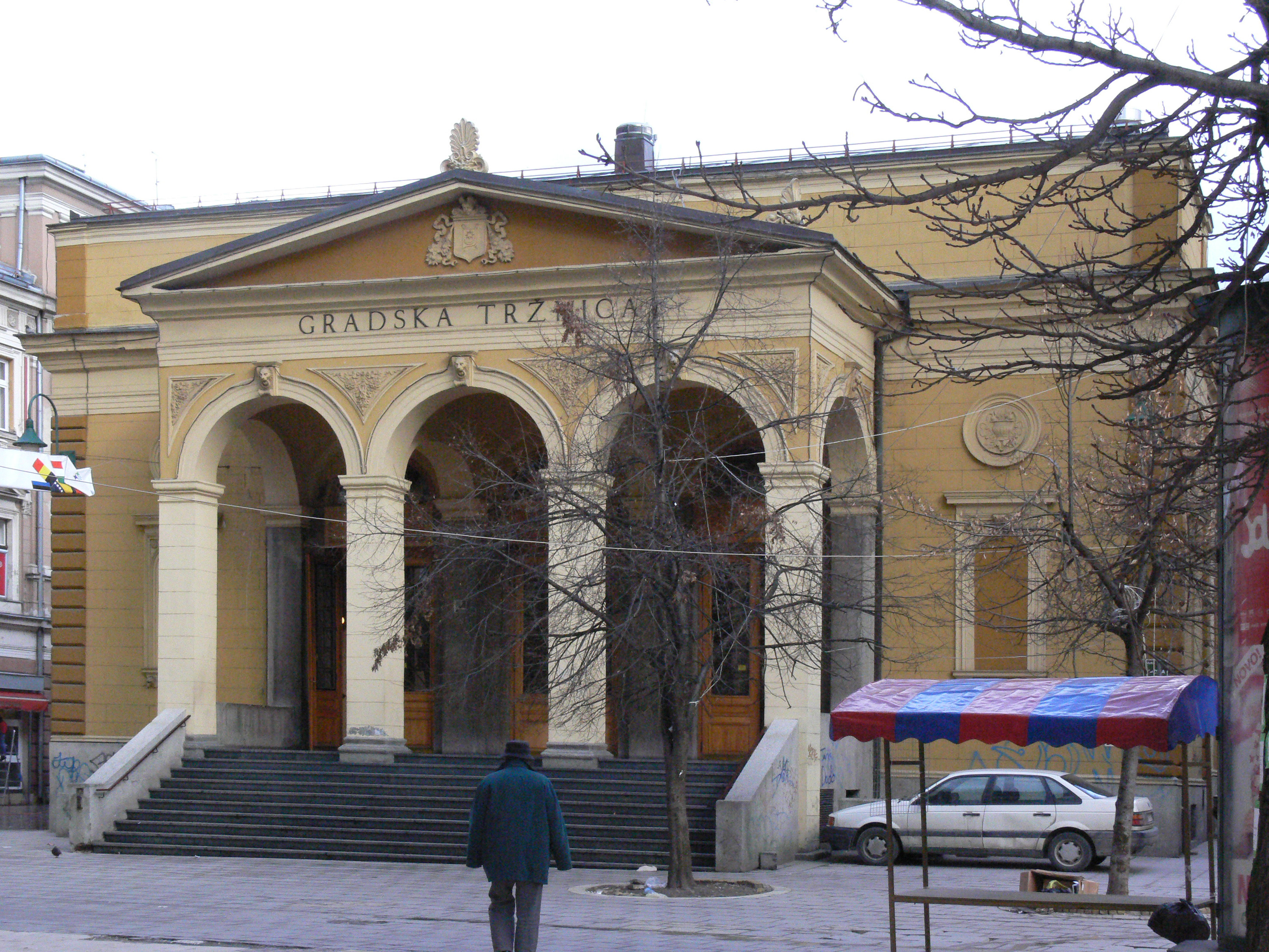 The covered market in Sarajevo.